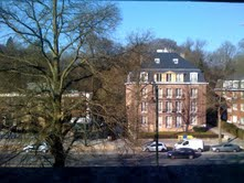 Avenue Franklin Roosevelt from high